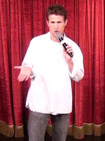 Jason Love at Brad Garrett's Comedy Club at MGM Grand in Las Vegas (2017).